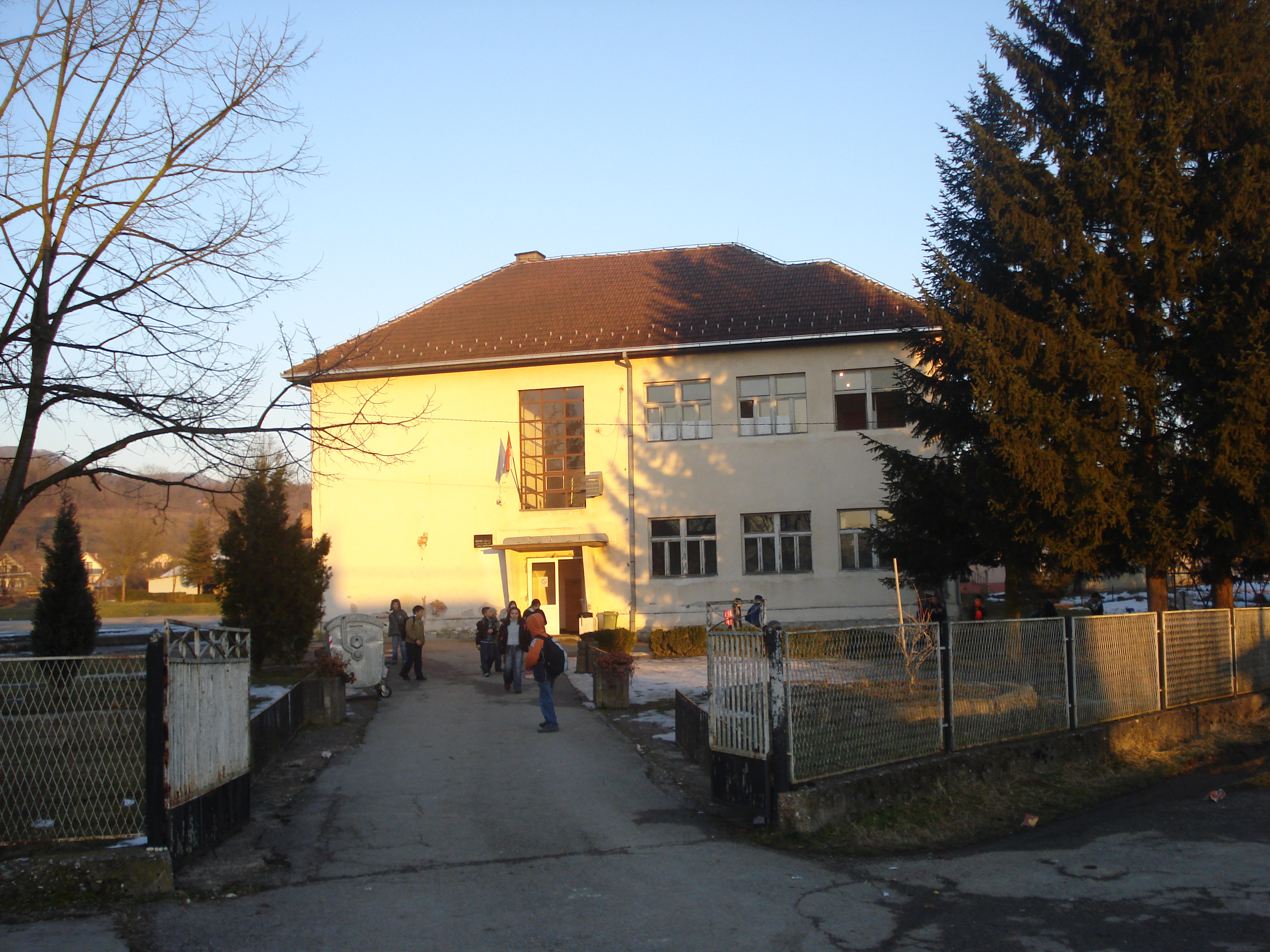 Skola u Donjoj Borini